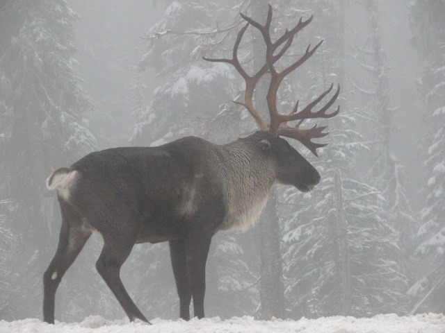 Woodland caribou in the Southern Selkirk Mountains of Idaho. Photo by Steve Forrest. Taken on October 22, 2007